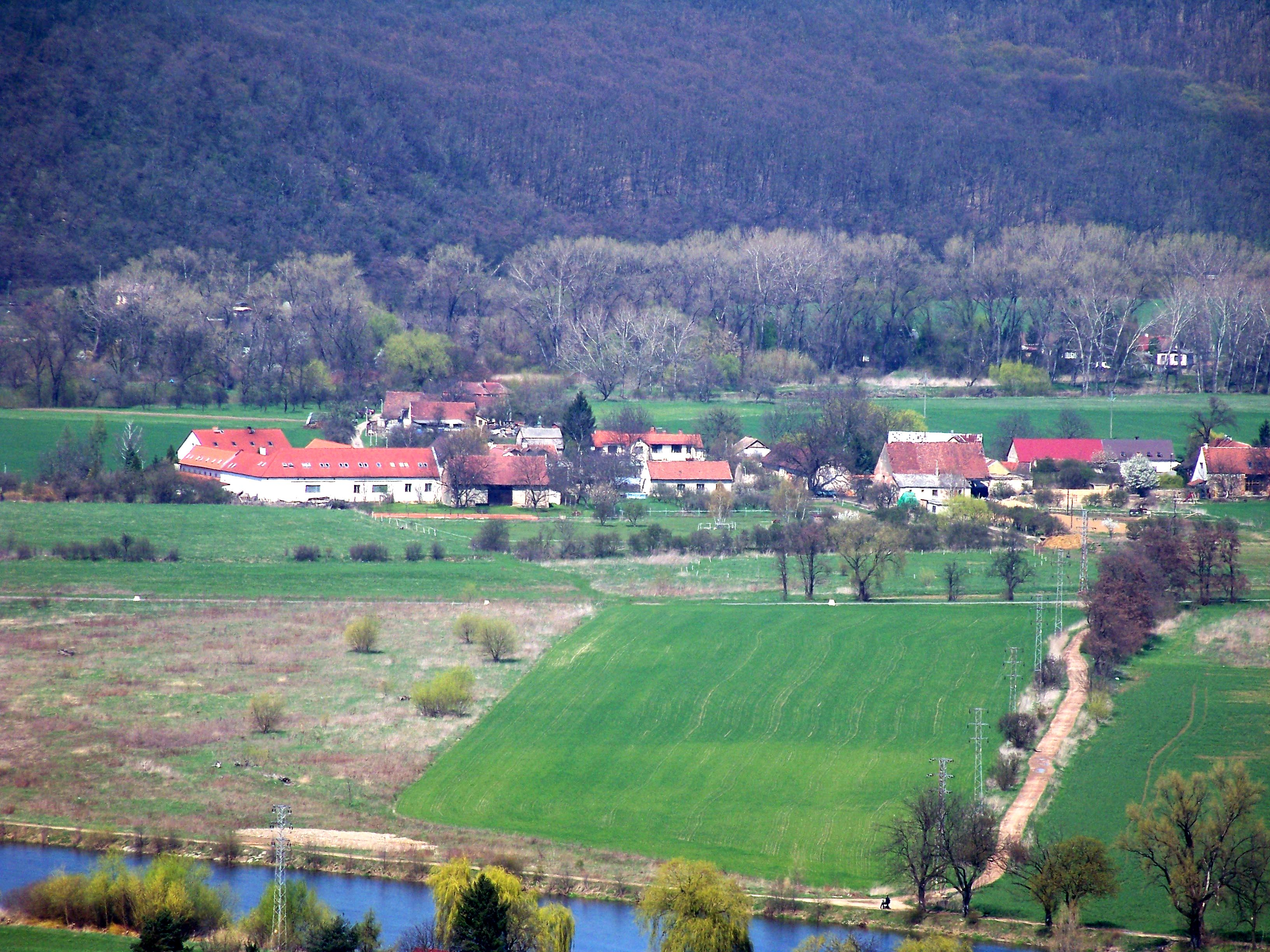 A view of Prague-Lipence-Dolní Černošice from Hladká skála (Smooth Rock), Jíloviště, Prague-West District, Central Bohemian Region, the Czech Republic.